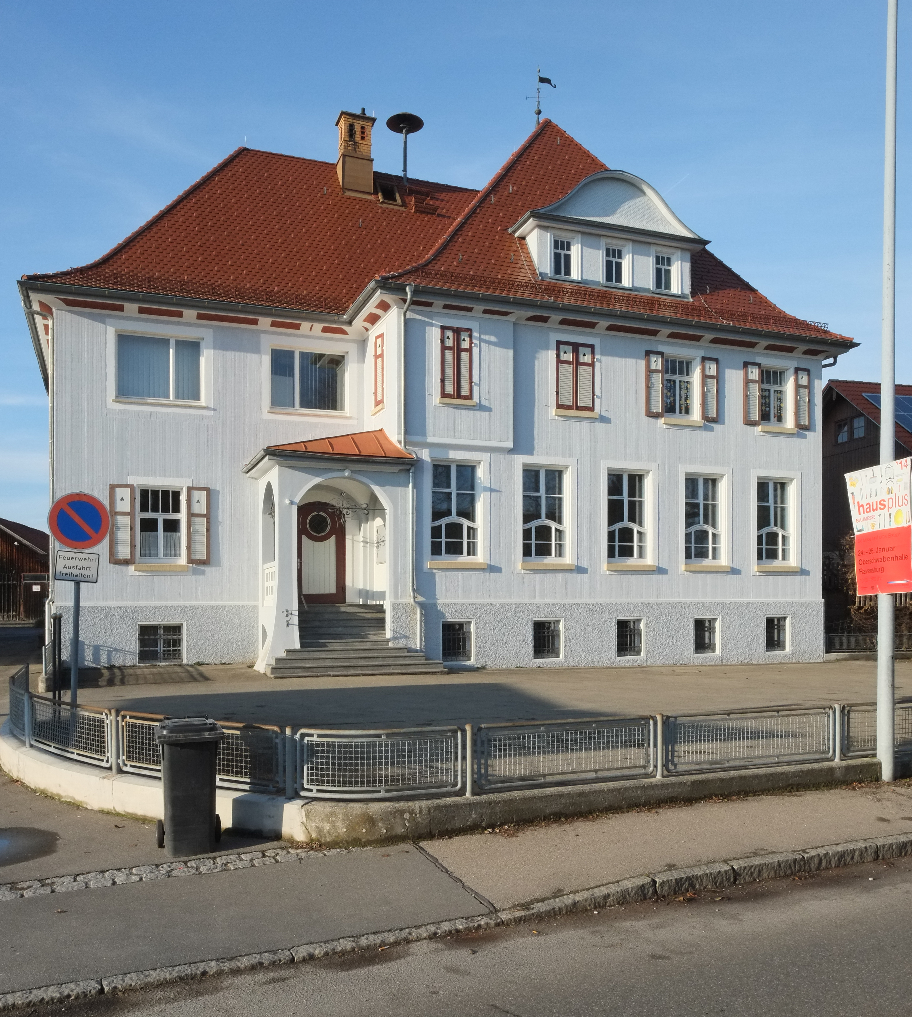 Parish hall Wangen-Primisweiler, district Ravensburg, Baden-Württemberg, Germany